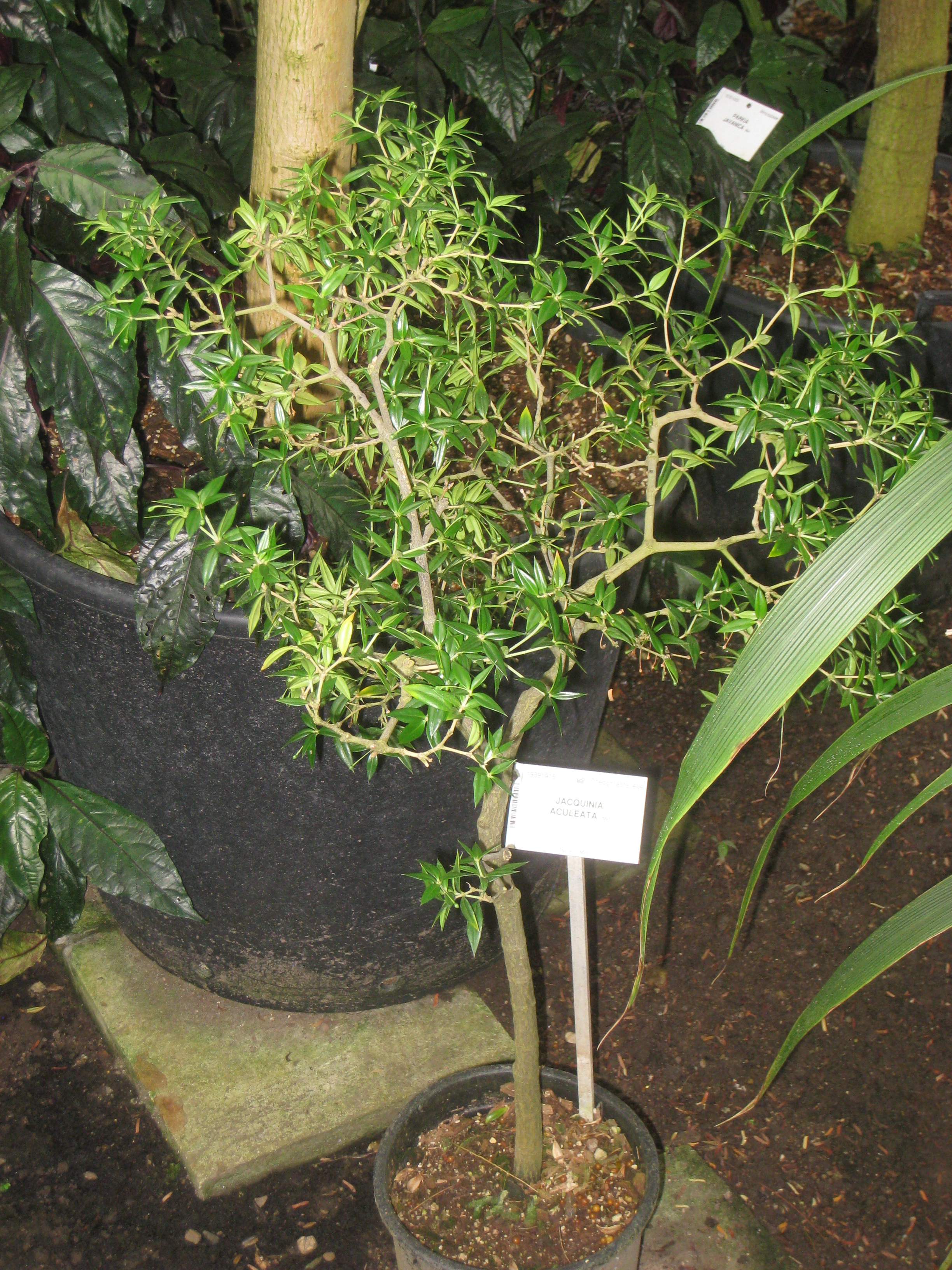 Jacquinia aculeata specimen in the National Botanic Garden of Belgium, Meise, just north of Brussels, Belgium.